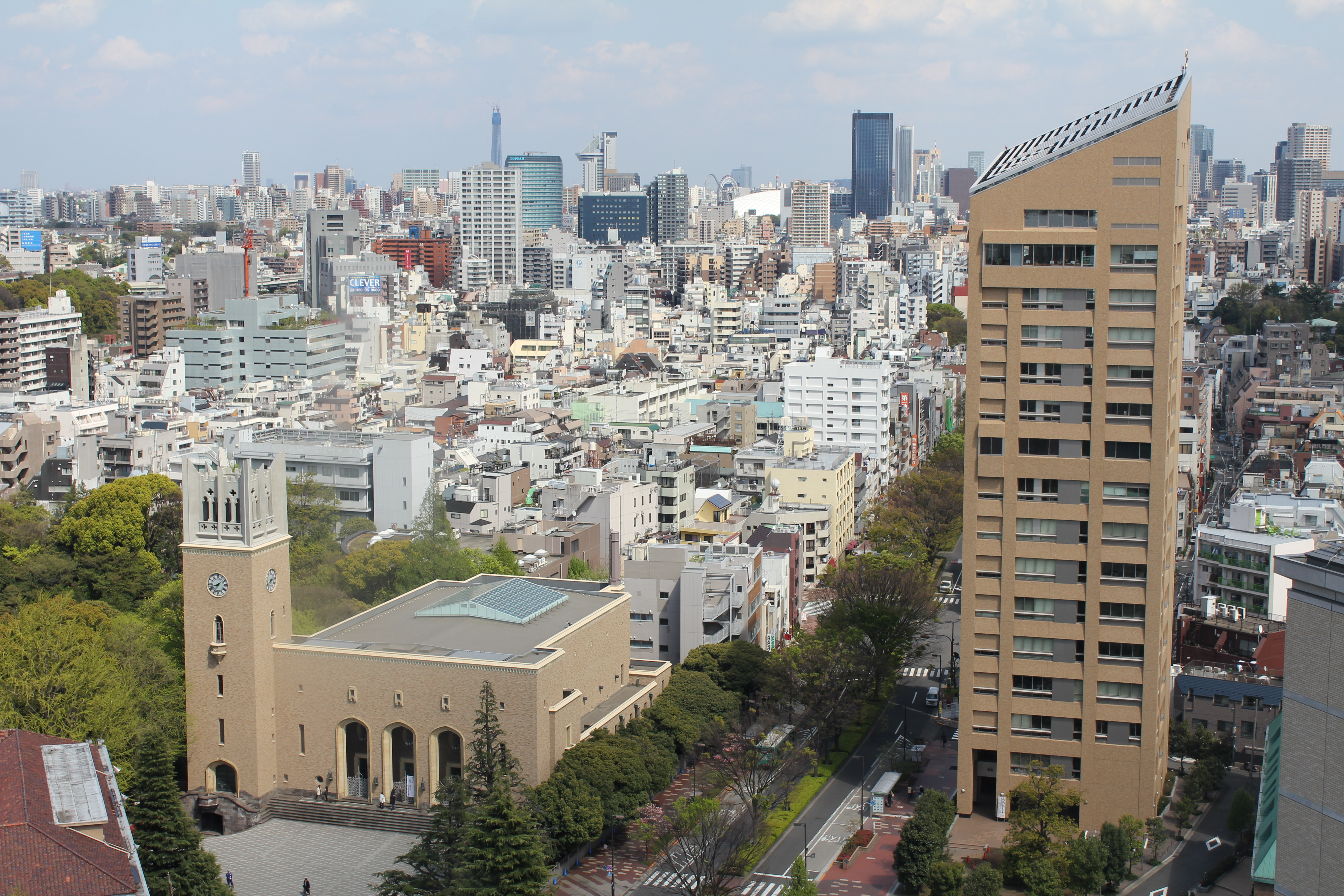 Okuma auditorium (left) and Okuma tower (right) on the Waseda University' Waseda campus.